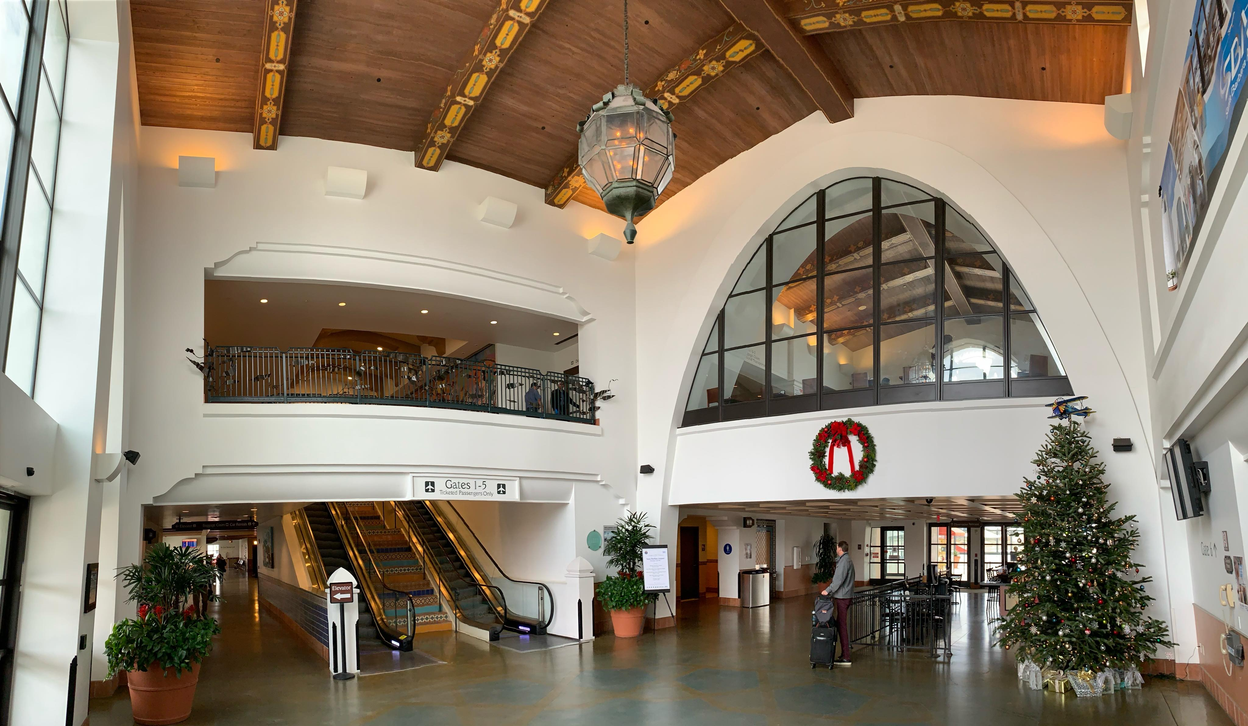 Central departures/arrivals area at Santa Barbara Municipal Airport